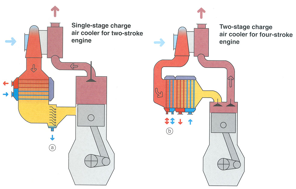 Air cooler position on engine